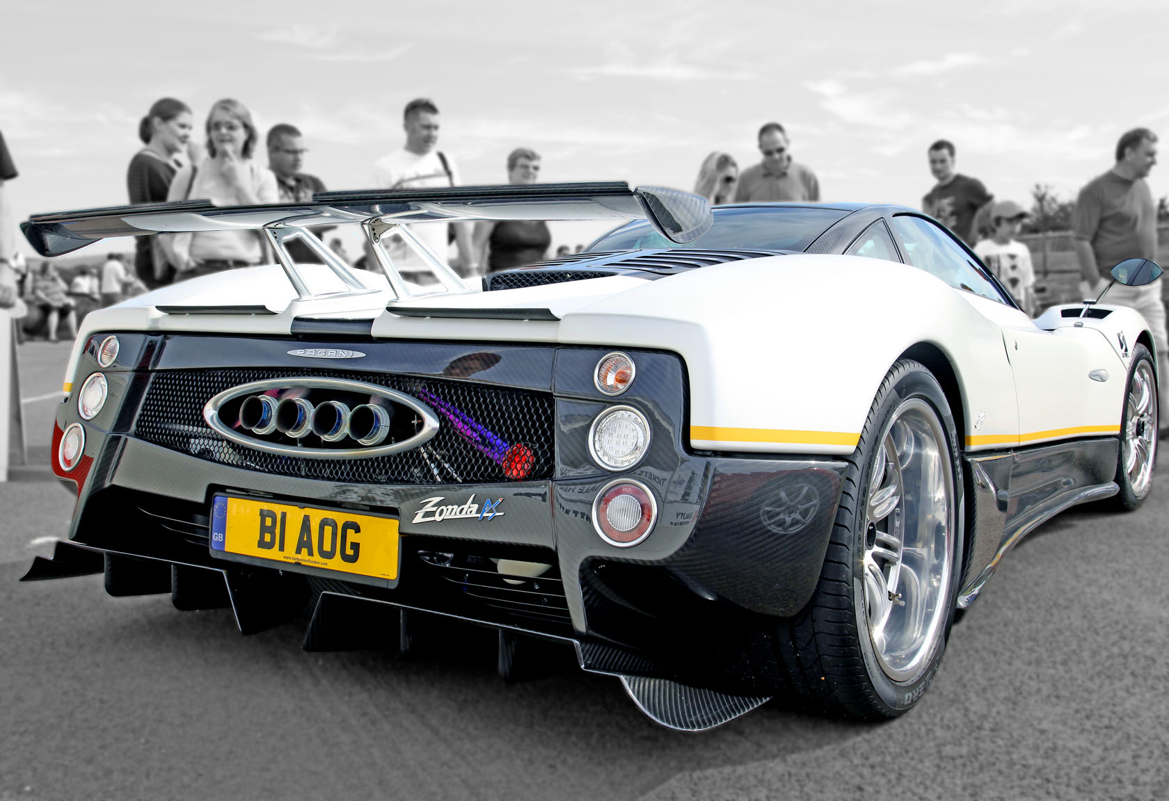 Pagani Zonda PS (Peter Saywell) from the rear at Goodwood breakfast club meeting